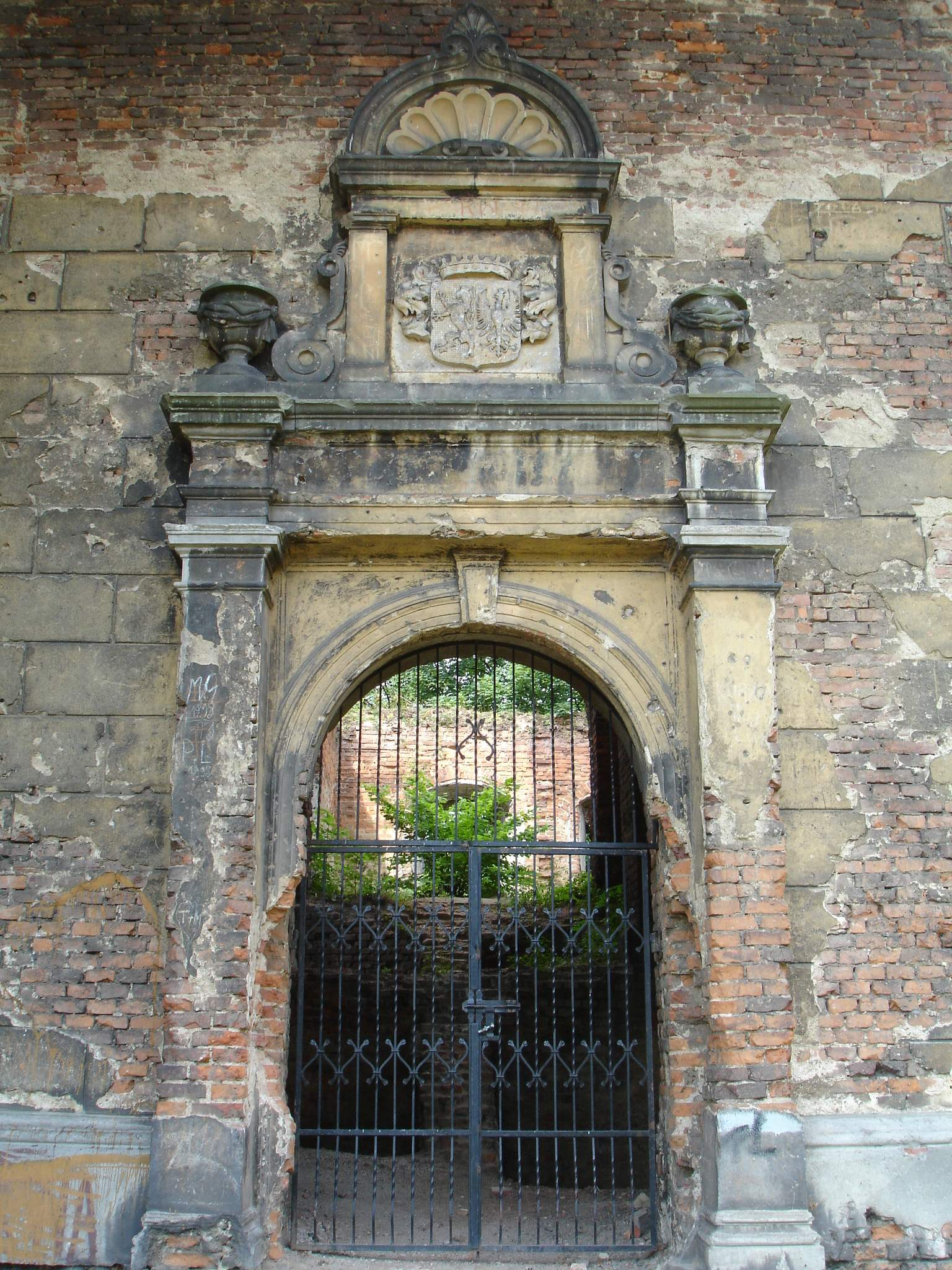 Tworków, ruins of palace